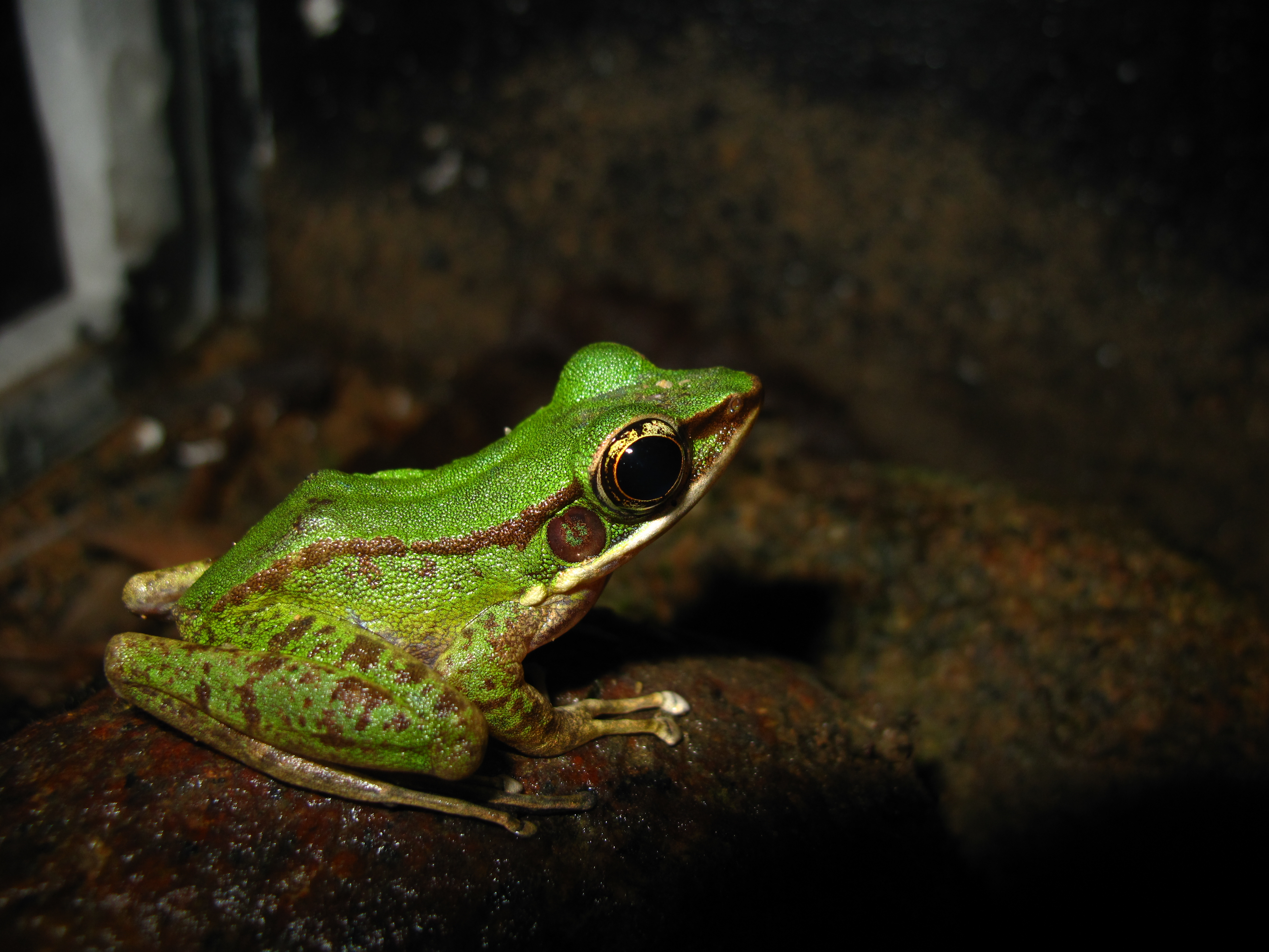 Odorrana hosii from Thailand